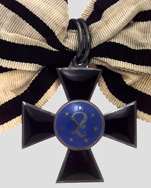 Order of Louise (Luisen-Orden), First Class. Detail of the badge, model 1865